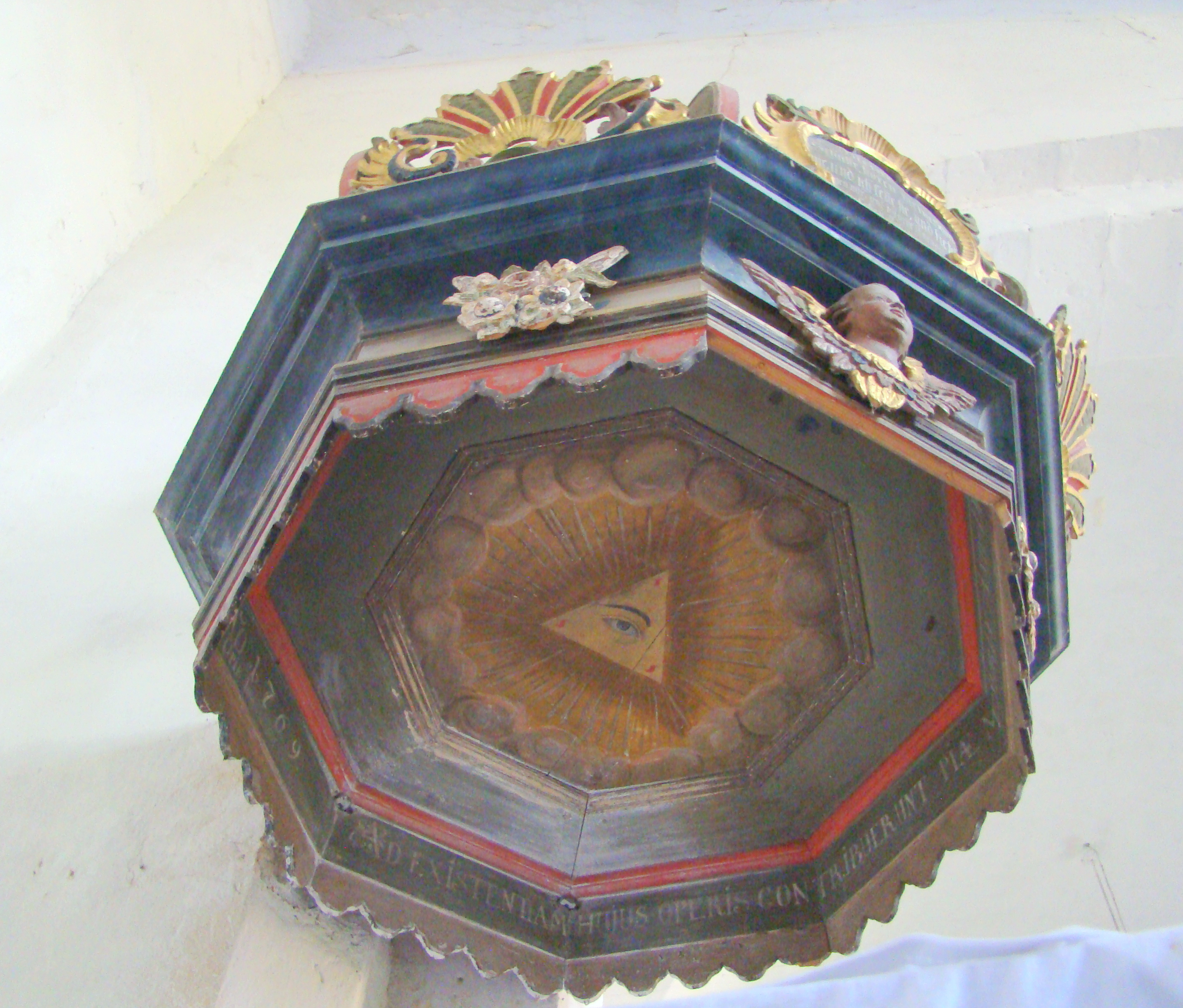 Fortified church in Ungra, Braşov County, Romania